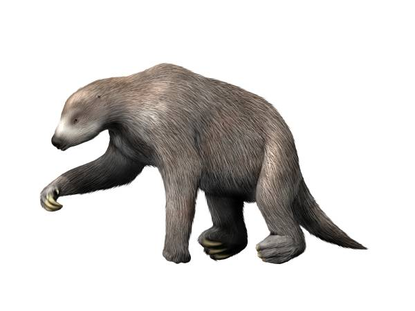 Life reconstruction of Nothrotheriops shastensis